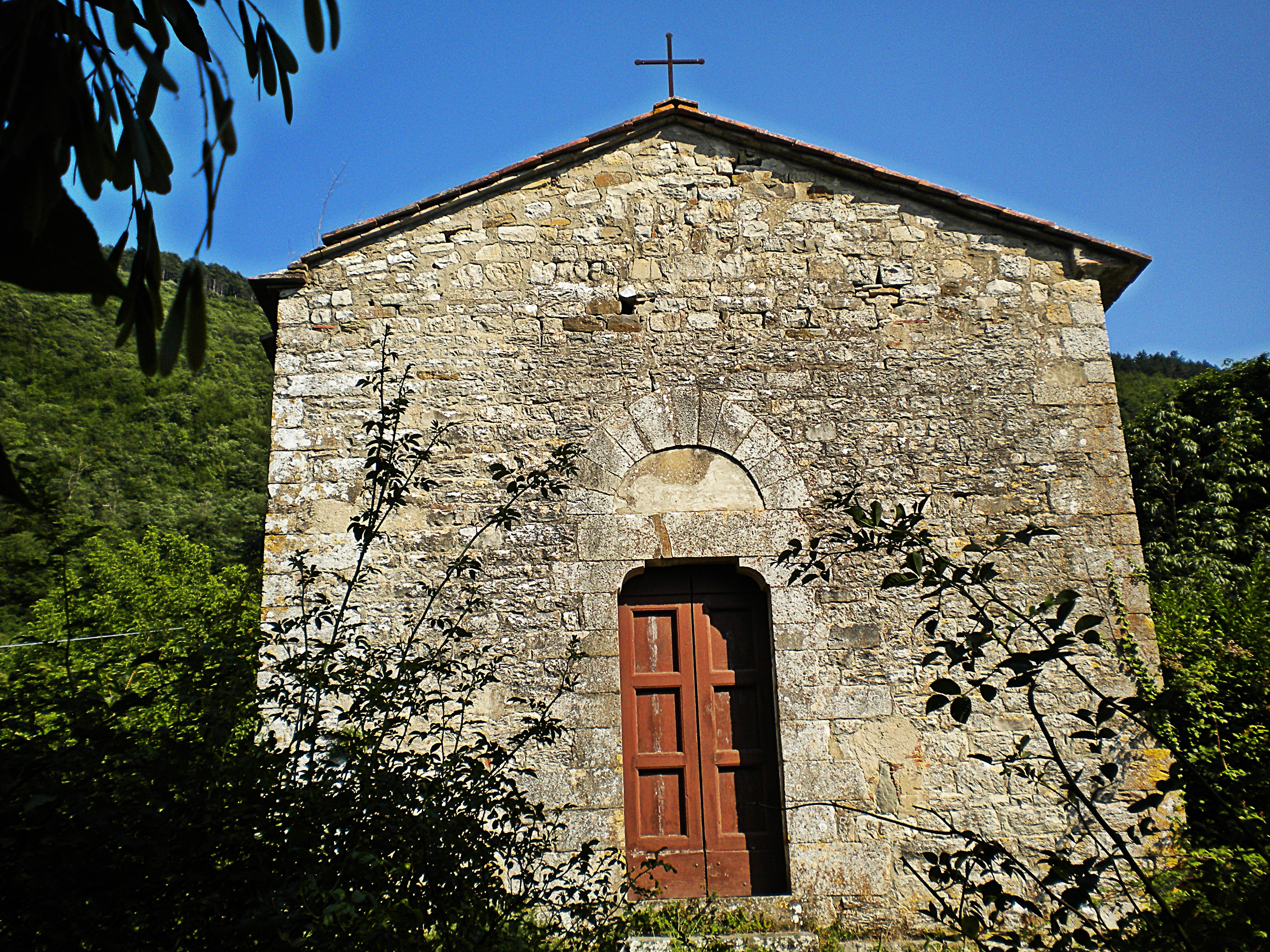 church